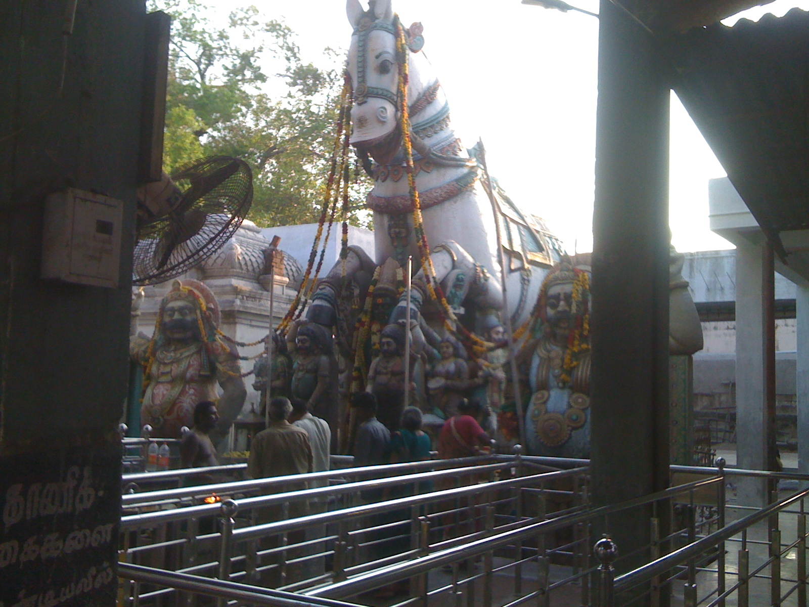 madappuram bharakali amman temple